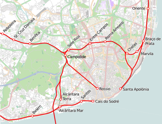 Lisbon passenger rail network